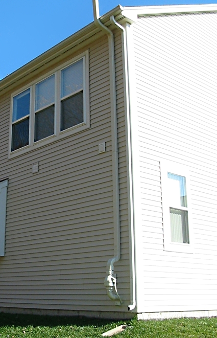 Radon reduction & remediation in Connecticut. Active Soil Depressurization (ASD) systems. Active Soil Depressurization utilizes PVC vent piping with an inline suction fan which draws air from the soil beneath and surrounding the foundation of the contaminated home or building. ASD is the most common method of soil gas mitigation and is effective at reducing radon levels more than 99% of the time.